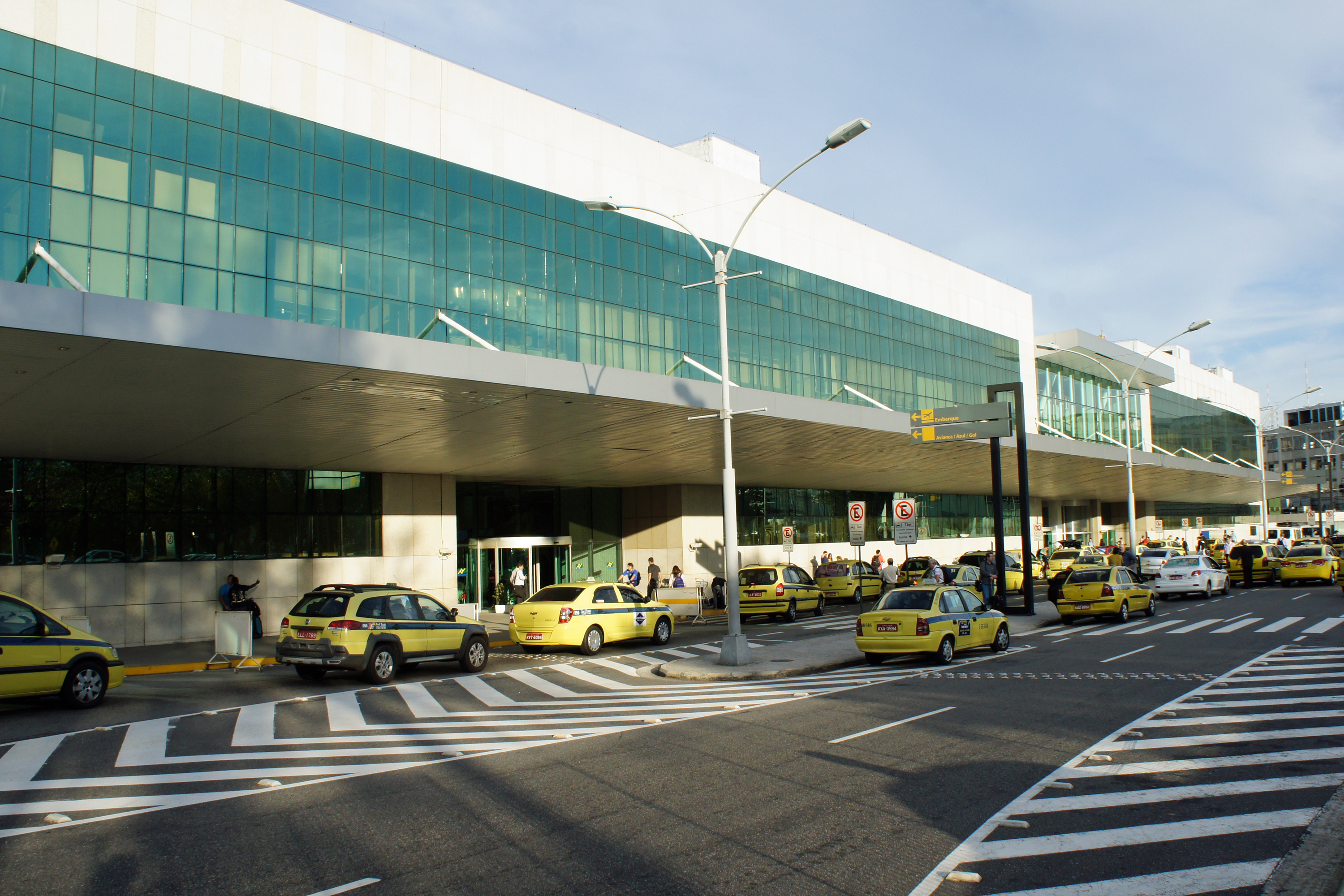 New terminal building (departures only), Santos Dumont Airport, Rio de Janeiro